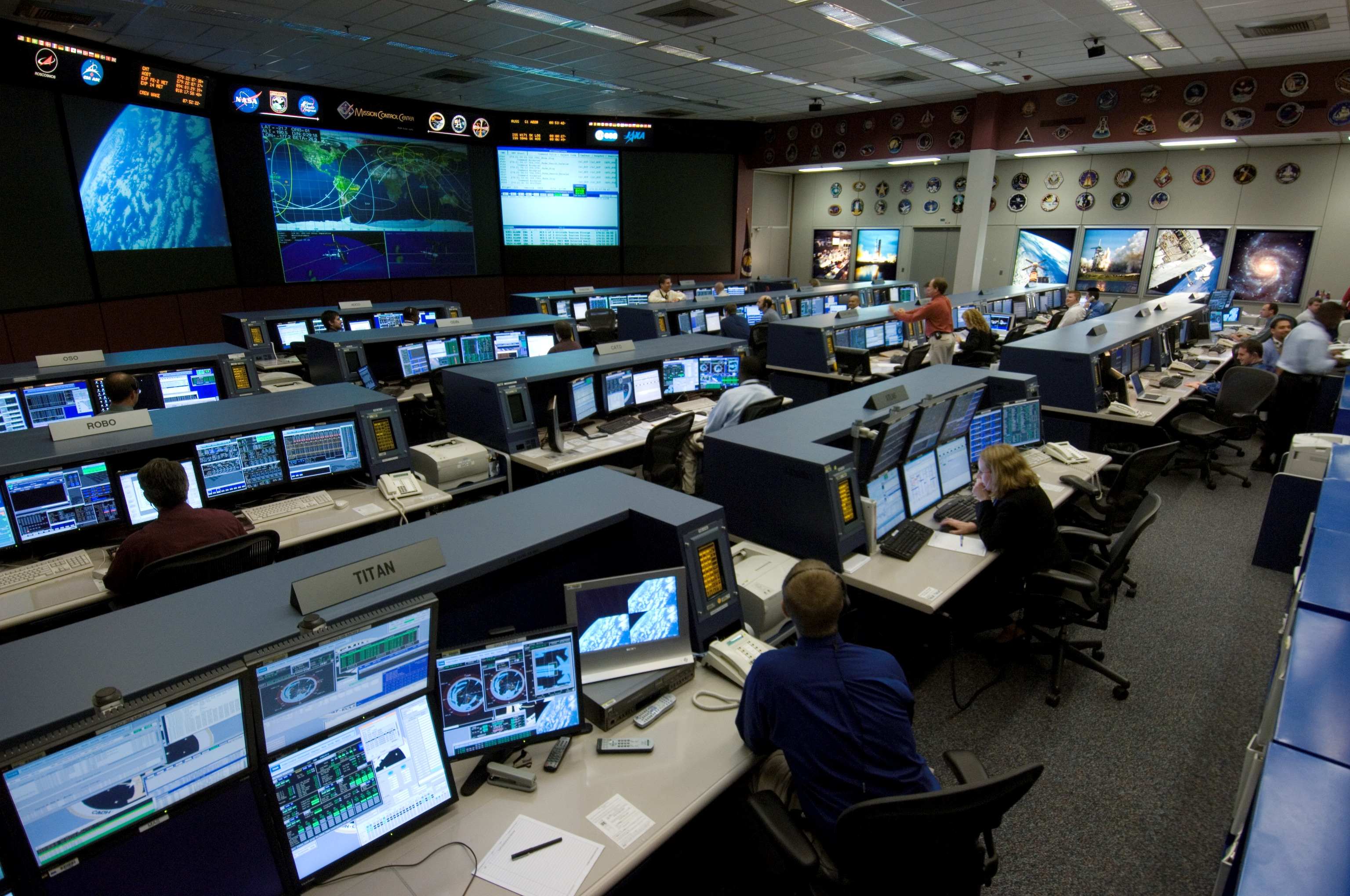 NASA caption: "International Space Station flight controllers have this area as their new home with increased technical capabilities, more workspace and a long, distinguished history. The newly updated facility is just down the hall from its predecessor at NASA's Johnson Space Center, Houston. Known as Flight Control Room 1, it was first used to control a space flight 38 years ago, the mission of Apollo 7 launched Oct. 11, 1968. It was one of two control rooms for NASA's manned missions. The room it replaces in its new ISS role, designated the Blue Flight Control Room, had been in operation since the first station component was launched in 1998."